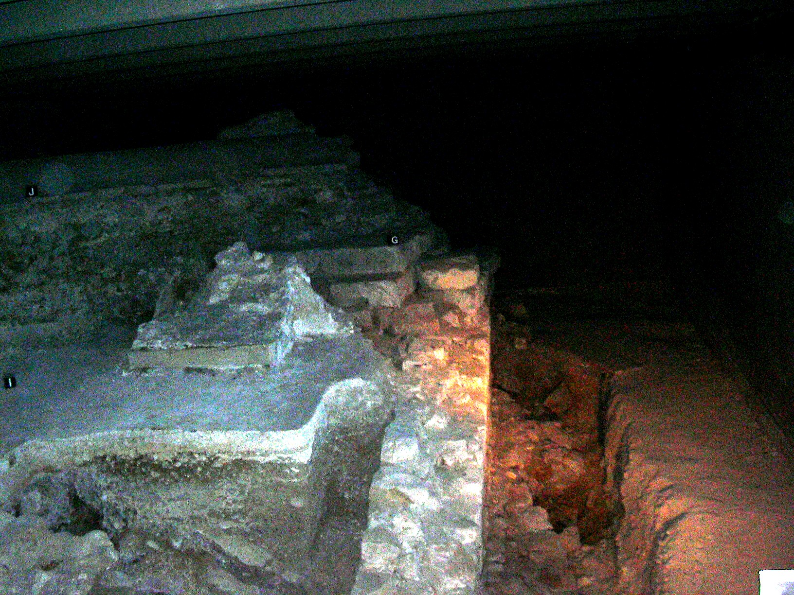 Ruins of a Roman Wall under a plaza in front of Notre Dame on the Île de la Cité in Paris. Year: 2003